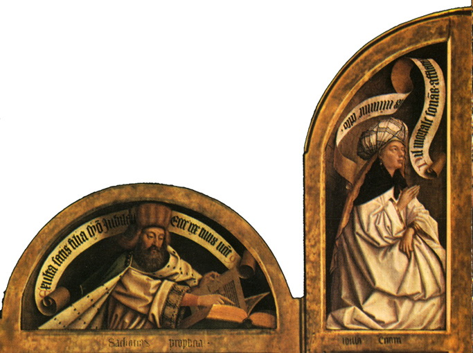 In October 1428 Jan did accompany a Burgundian embassy, this time for the hand of Isabella, eldest daughter of John I of Portugal (reg 1385–1433). After a storm forced them to spend four weeks in England, the Burgundians arrived in Lisbon in December. In January they met the King in the castle of Aviz, and van Eyck painted the Infanta's portrait, probably in two versions to accompany the two separate groups who left by sea and by land on 12 February to report the terms to the Duke. The portraits are untraced, but one is preserved in a drawing (Germany, prig. col., see Sterling, fig.), which reveals that Jan used the princess's Portuguese dress for the Erythrean sibyl on the Ghent Altarpiece. Nil mortale sona(n)s ♦ afflata es numine celso ♦